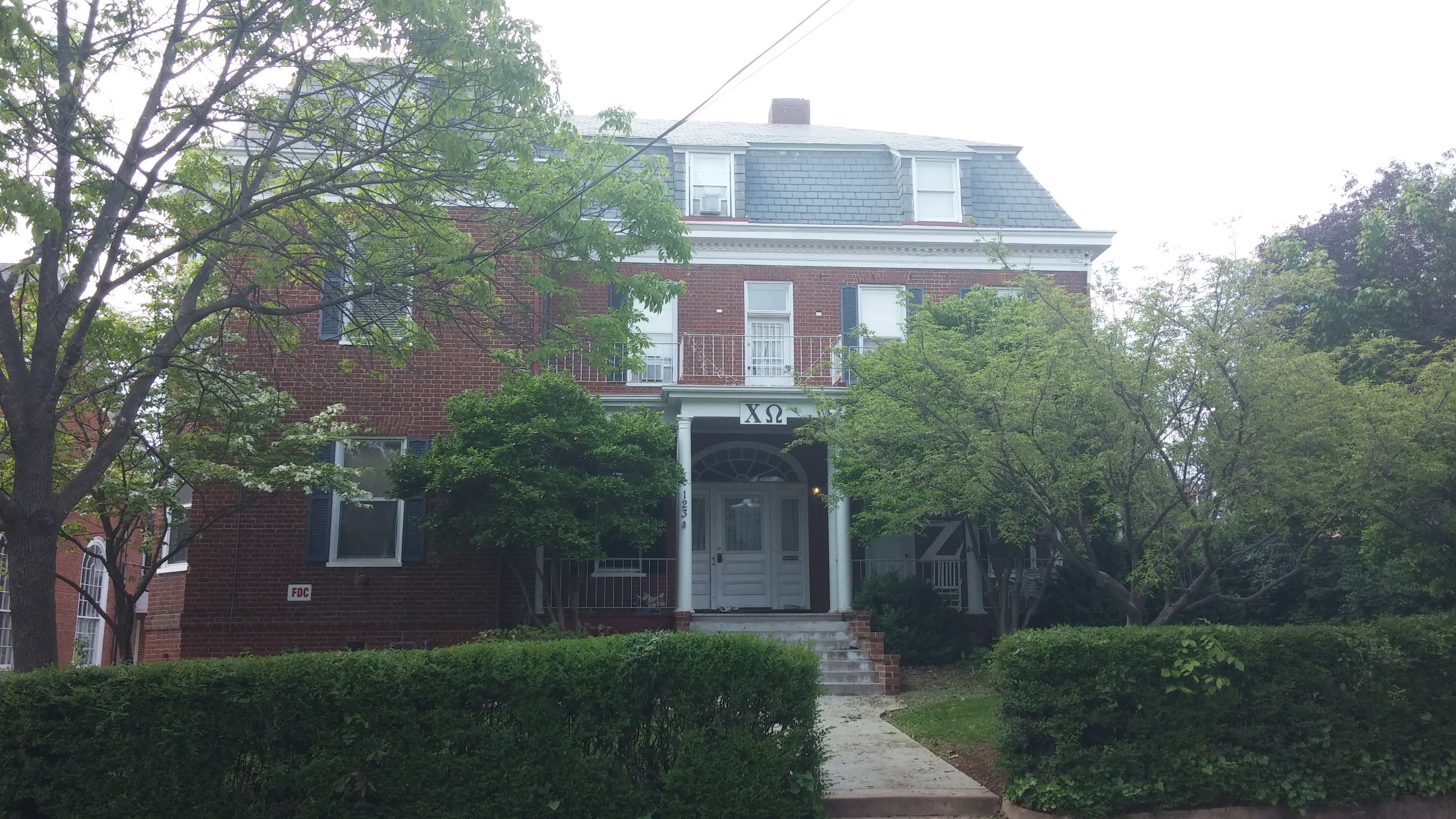 The Chi Omega house at the University of Virginia.